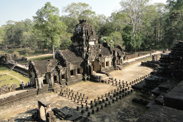 General view